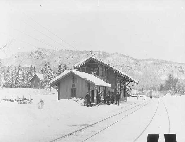 Hvalstad railway station on Drammenbanen, in Asker, Norway.